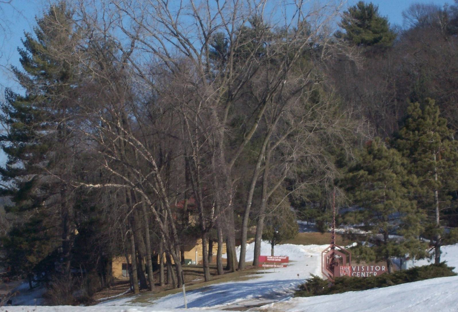 The American Players Theatre near Spring Green, Wisconsin on Wisconsin Highway 23.